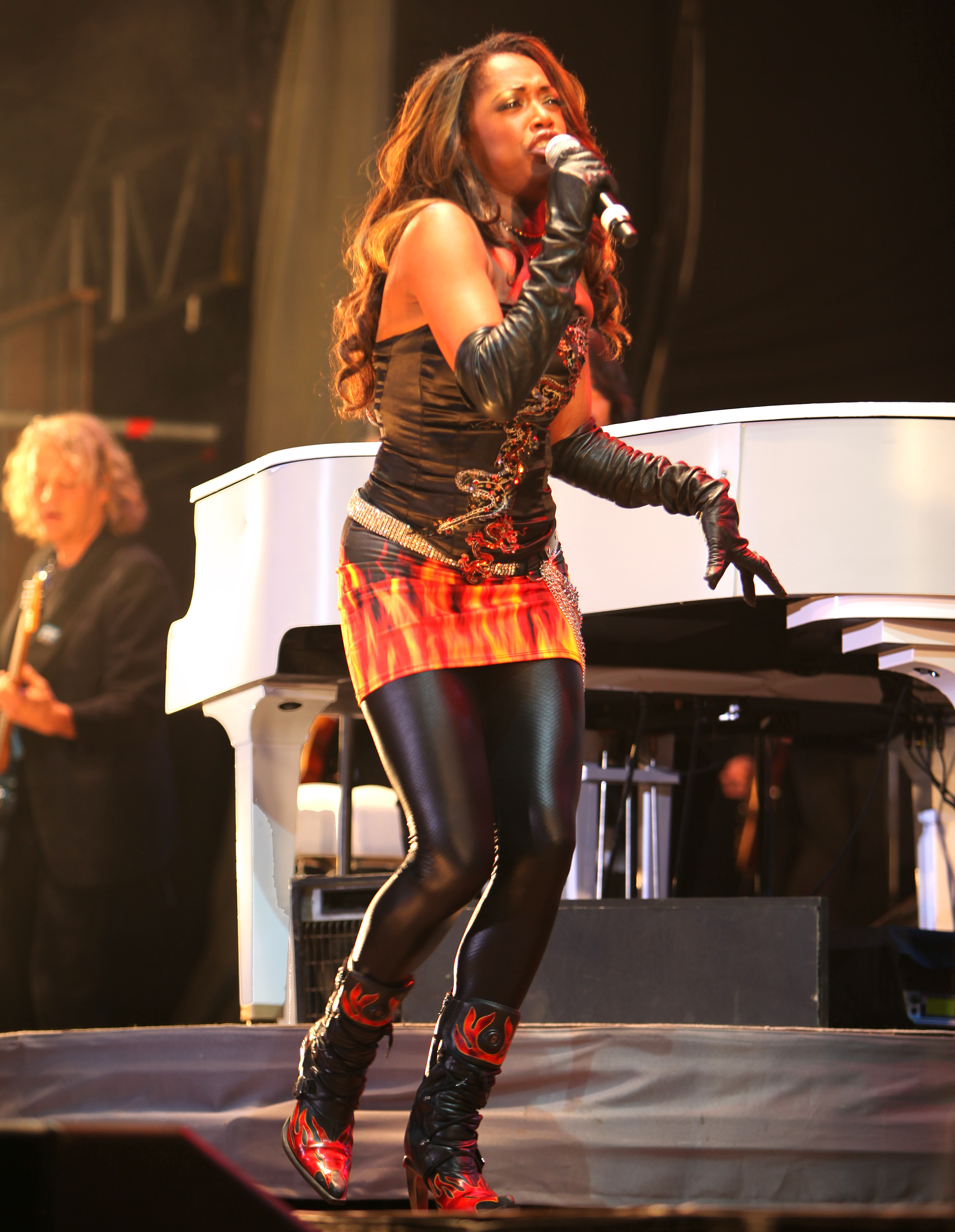 Singer LaGaylia Frazier, performing at a Rhapsody in Rock concert in Sweden.